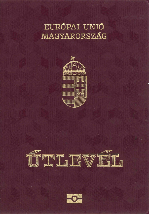 The new cover of a Hungarian passport, replacing the previous name of the country, Magyar Koztarsasag, with Magyarorszag.